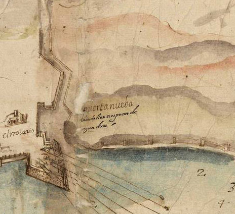 Section of 1608 map of Gibraltar by Cristóbal de Rojas with Charles V Wall, South Bastion, and Flat Bastion demonstrated.